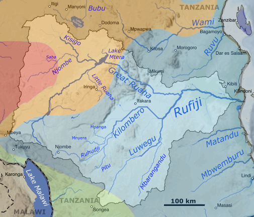 Map of the Rufiji River basin and Tanzania map of Köppen climate classification